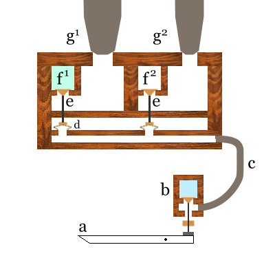 drawing of the cone chest of an organ in rest